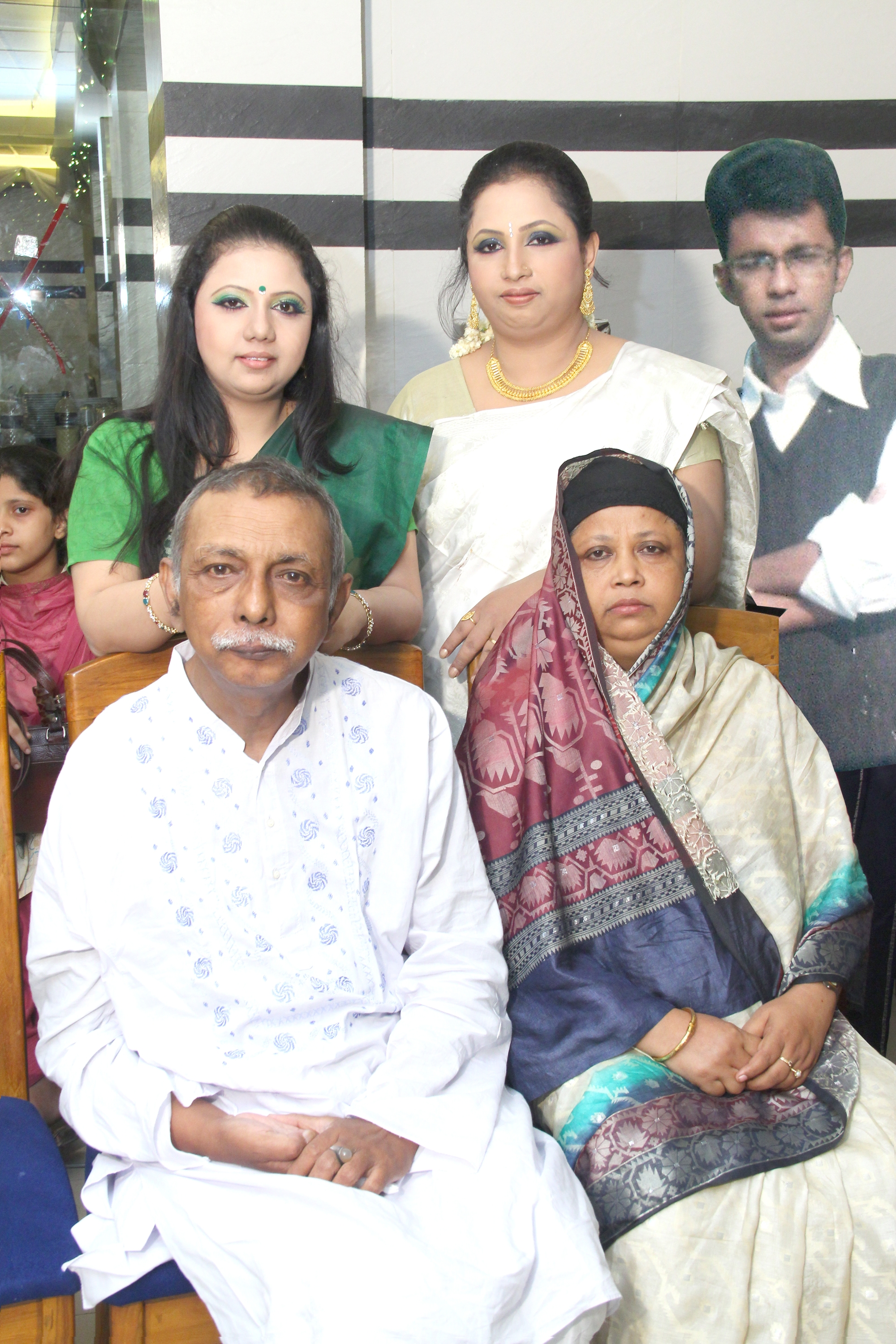 Nazimuddin Mostan with his family